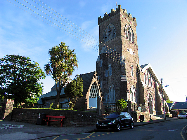 St. Mary's church in Dingle, county Kerry, Ireland